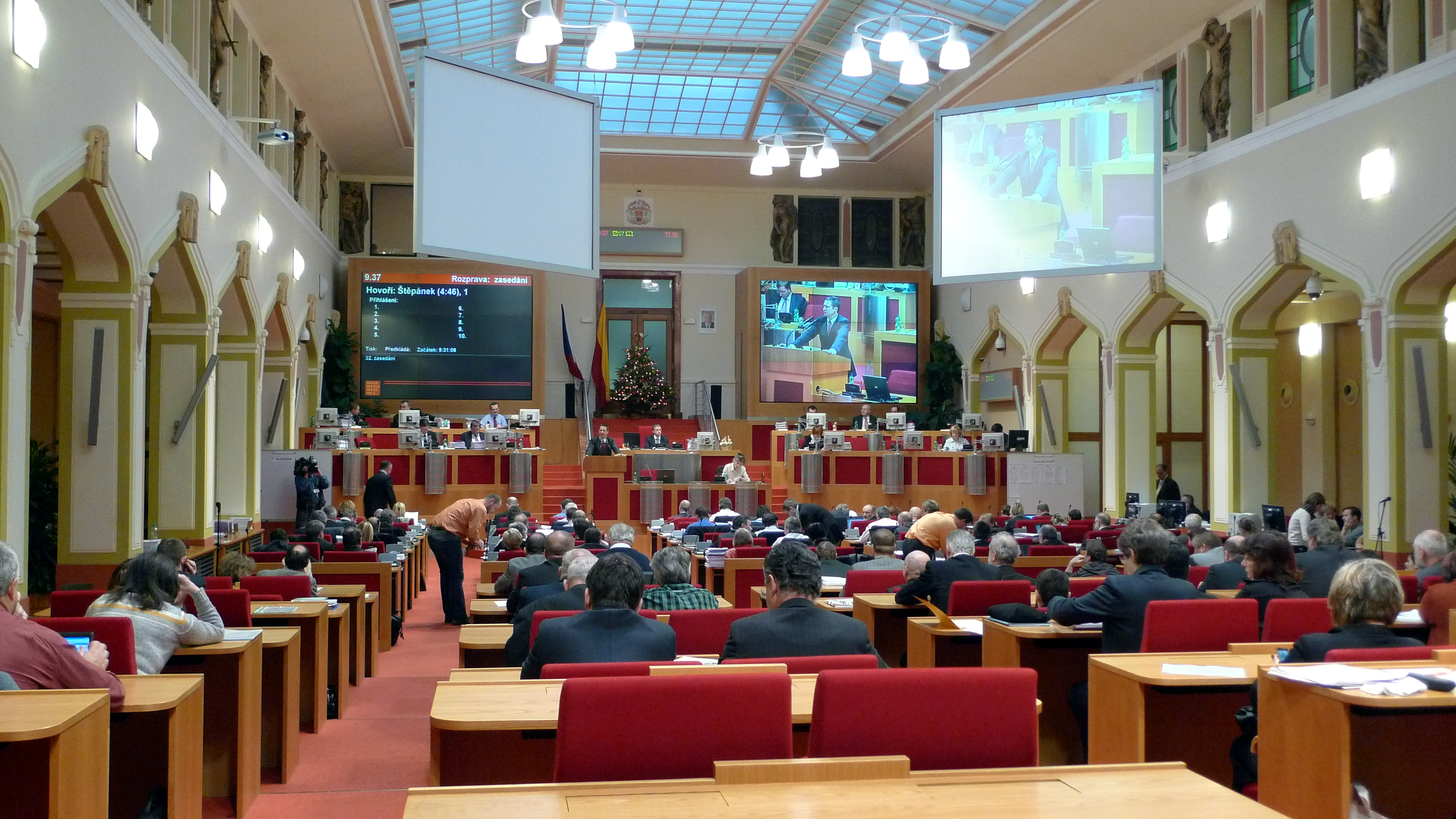 City council of Prague meeting hall, Czech Republic